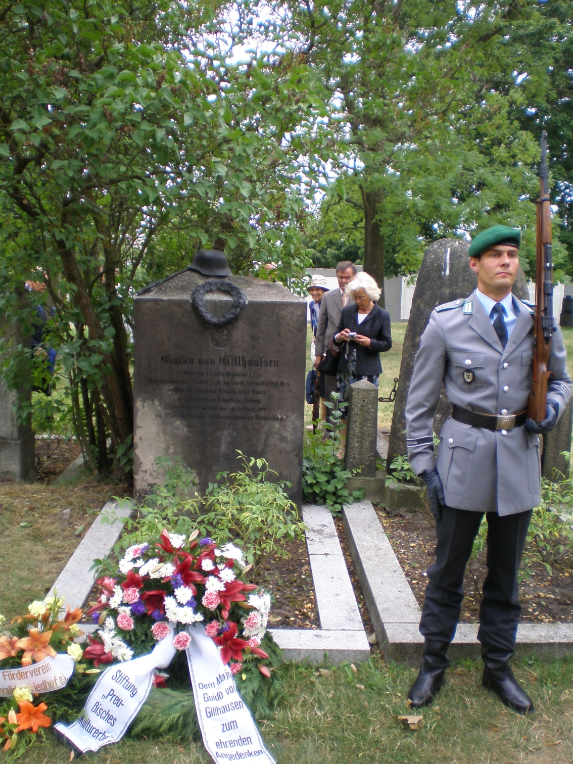 Gravestone of Guido von Gillhaußen on the Berliner Invalidenfriedhof